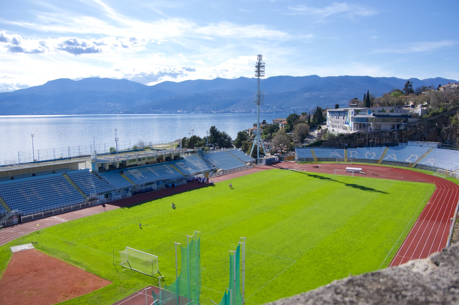 Kantrida stadion